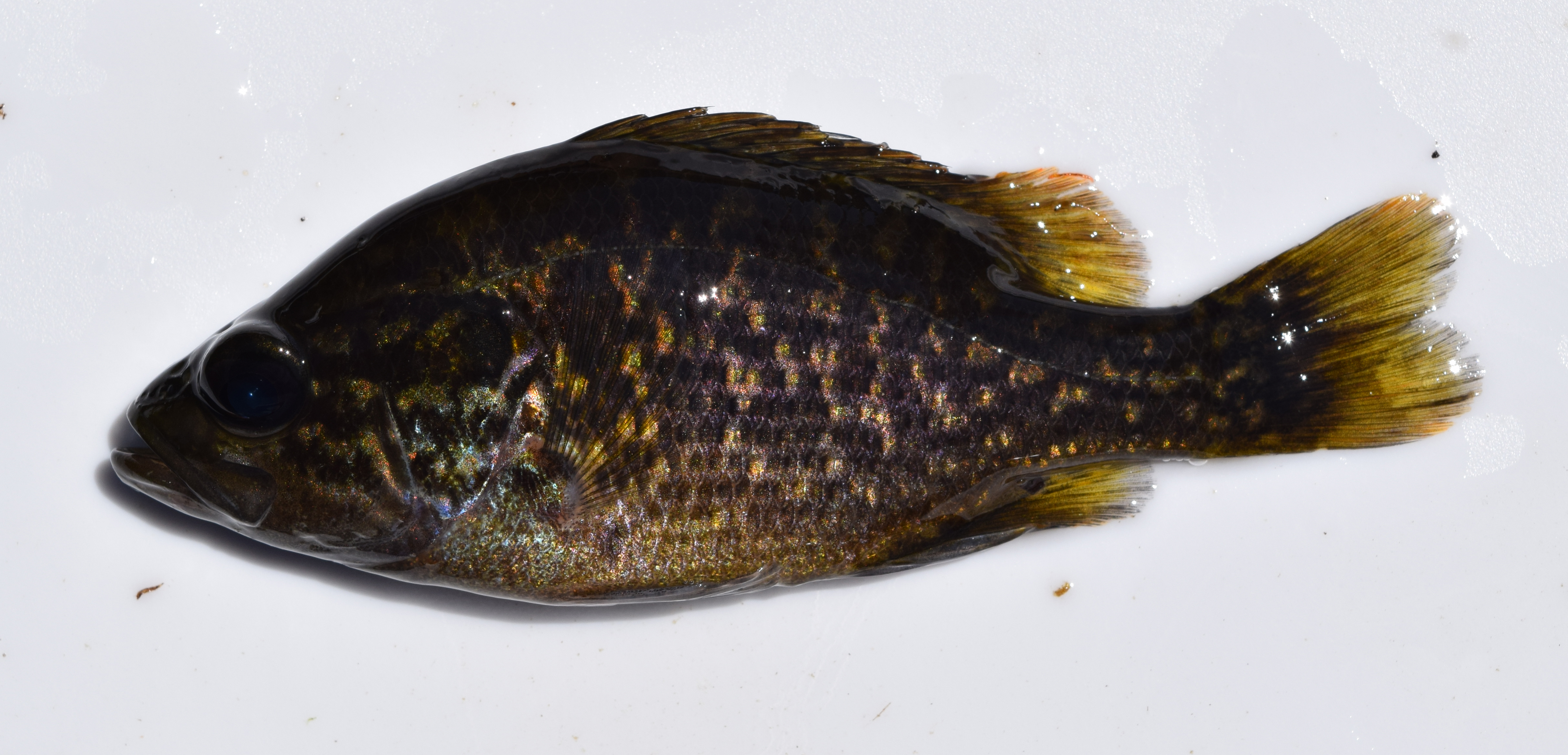 An adult Lepomis gulosus (warmouth) at the University of Mississippi Field Station.